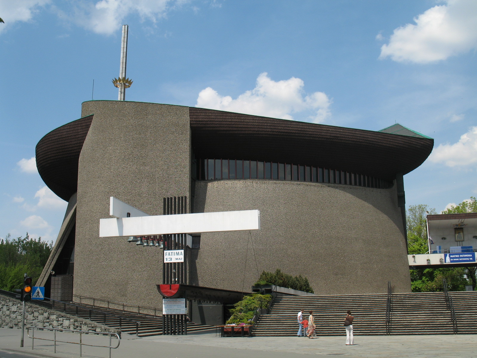 The Lord's Ark church in Bieńczyce, Kraków, Poland.